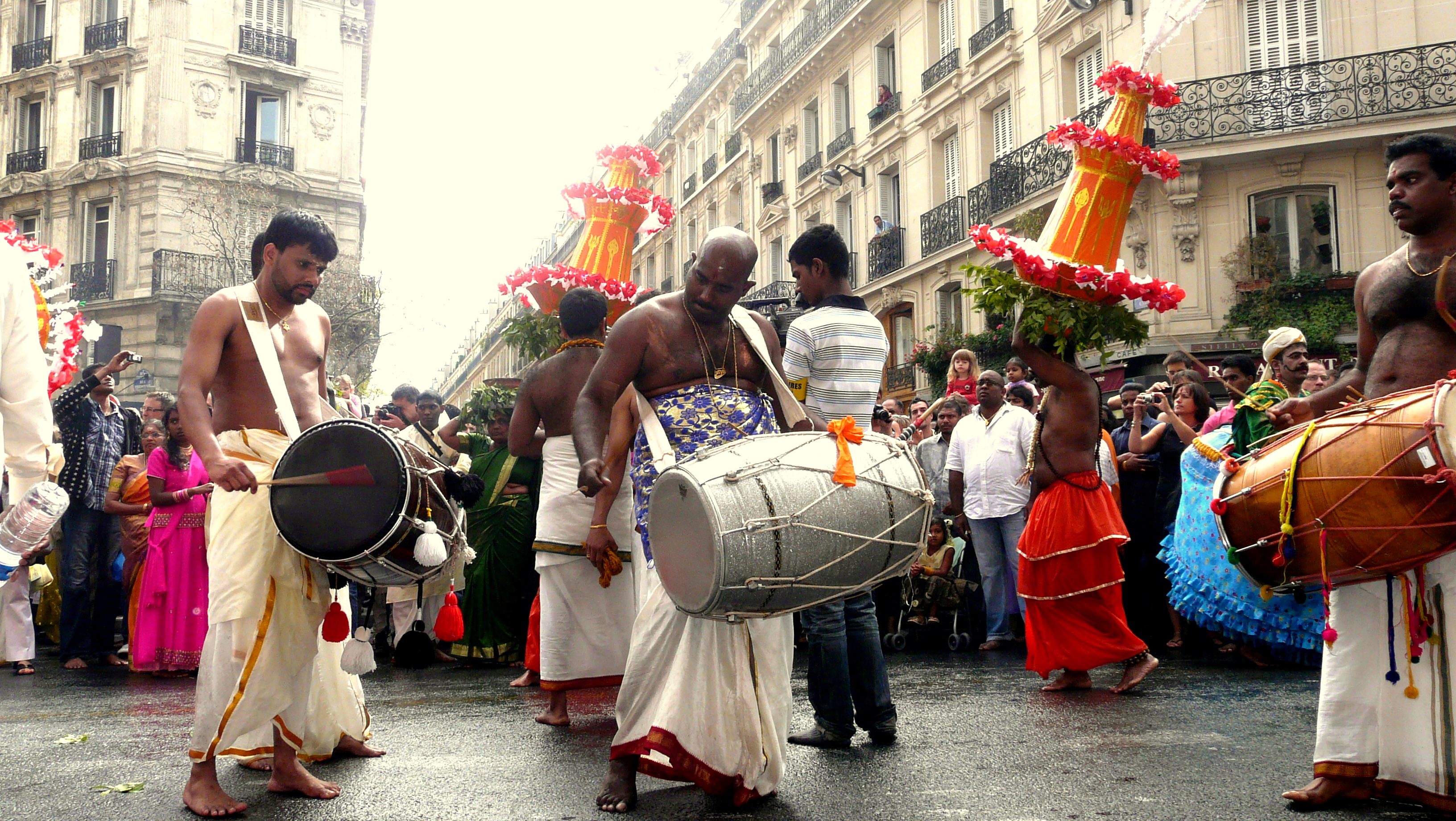 Vinayaga Chaturthi Festival in Paris.